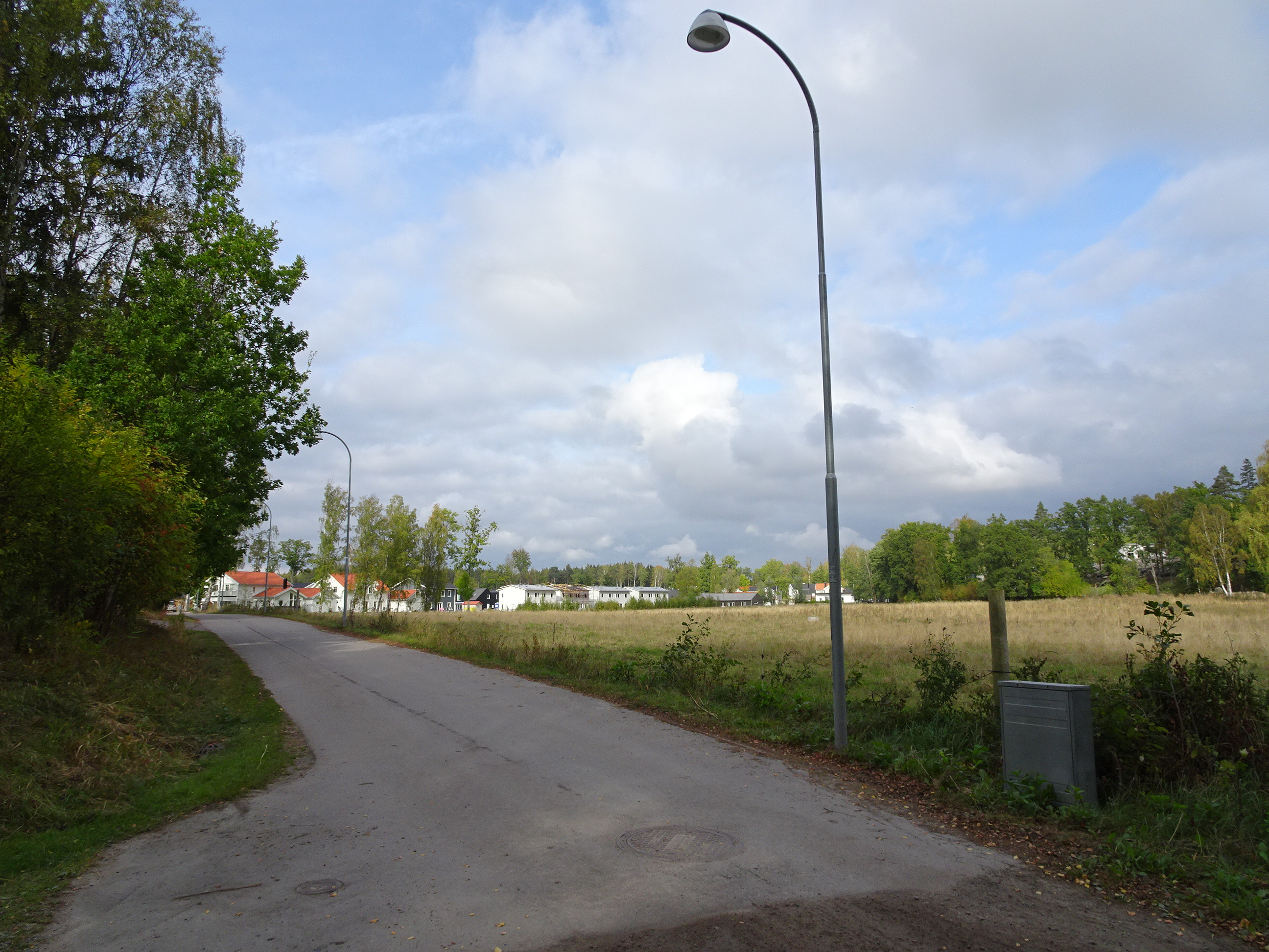 Herrgårdsängen, a district in Västerås, Sweden.